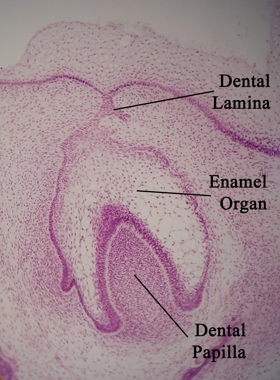 Histology of developing tooth with enamel organ, dental lamina, and dental papilla labeled.